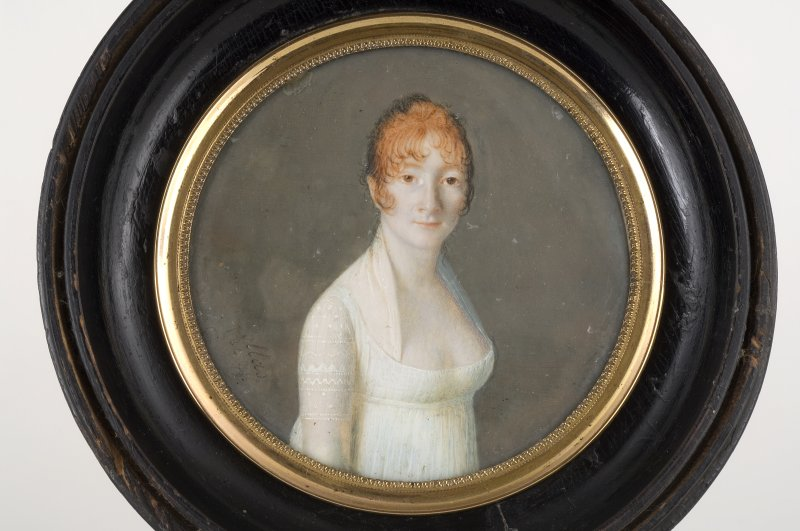 Portrait de Mme John Géraud, vers 1802 par Collas conservé au musée des Arts décoratifs et du Design, Bordeaux